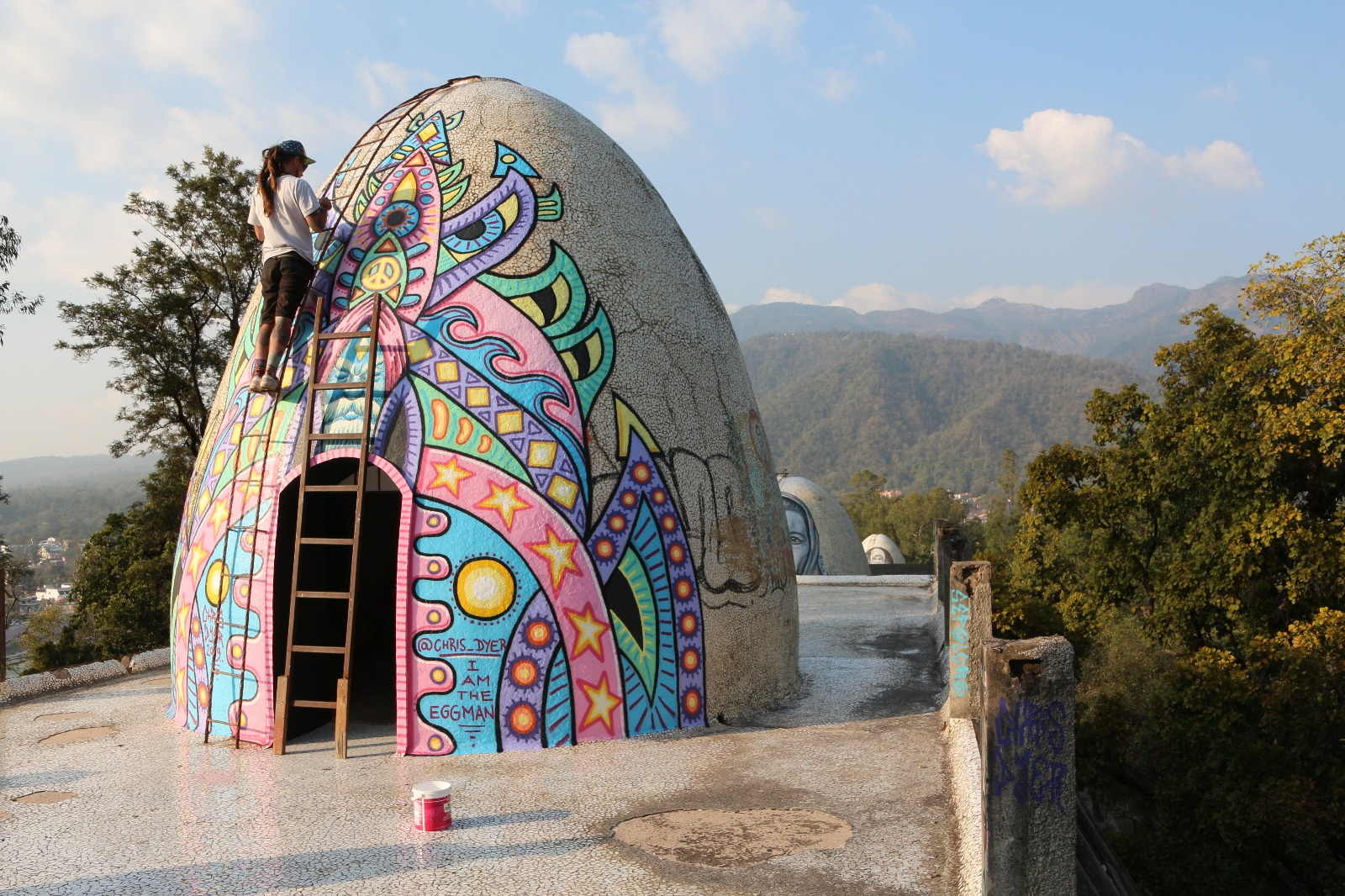 Painted in 2019 in Rishikesh, India.